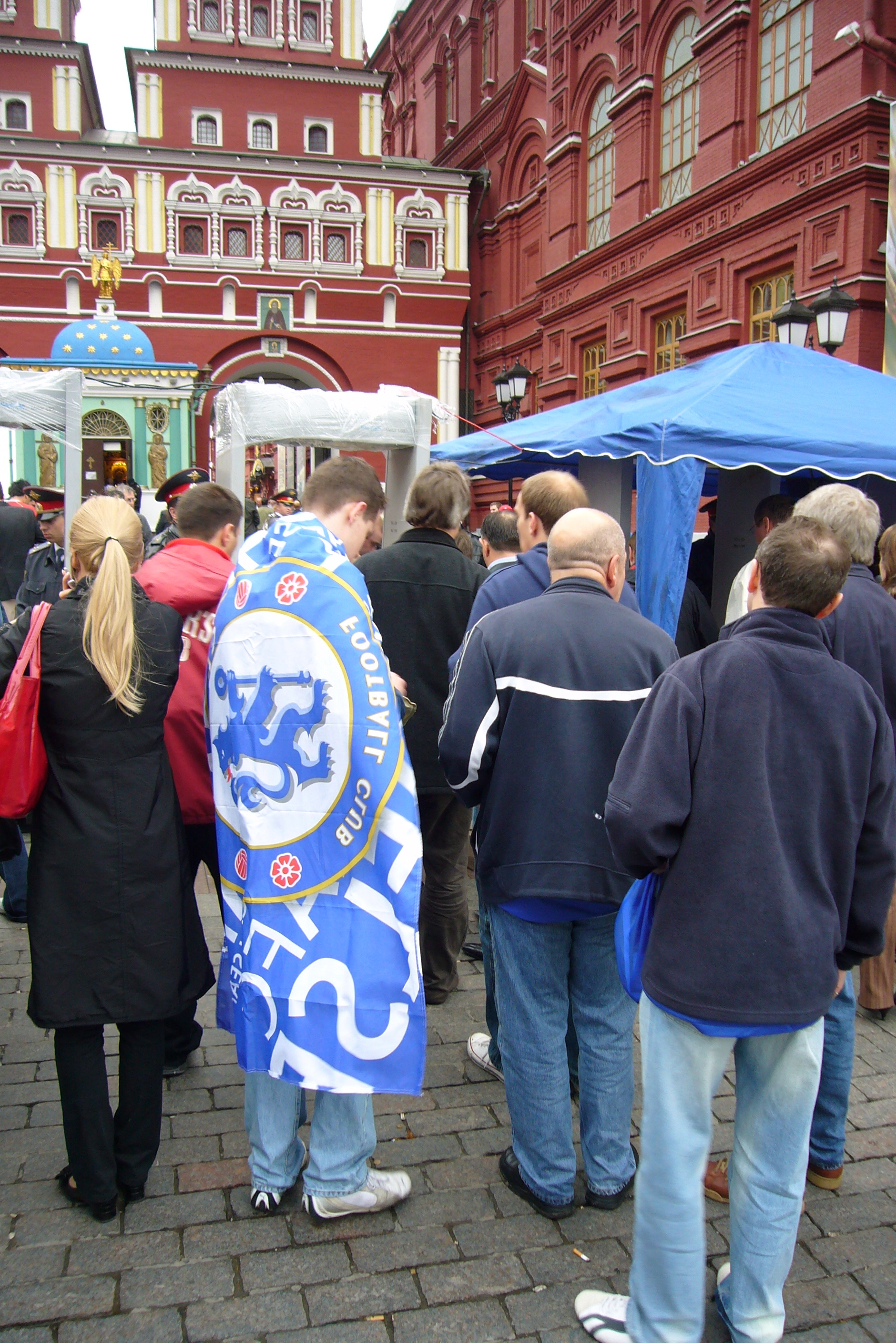 Chelsea fans near the Kremlin, Moscow, on the day of the 2008 UEFA Champions Cup Final, May 21, 2008.